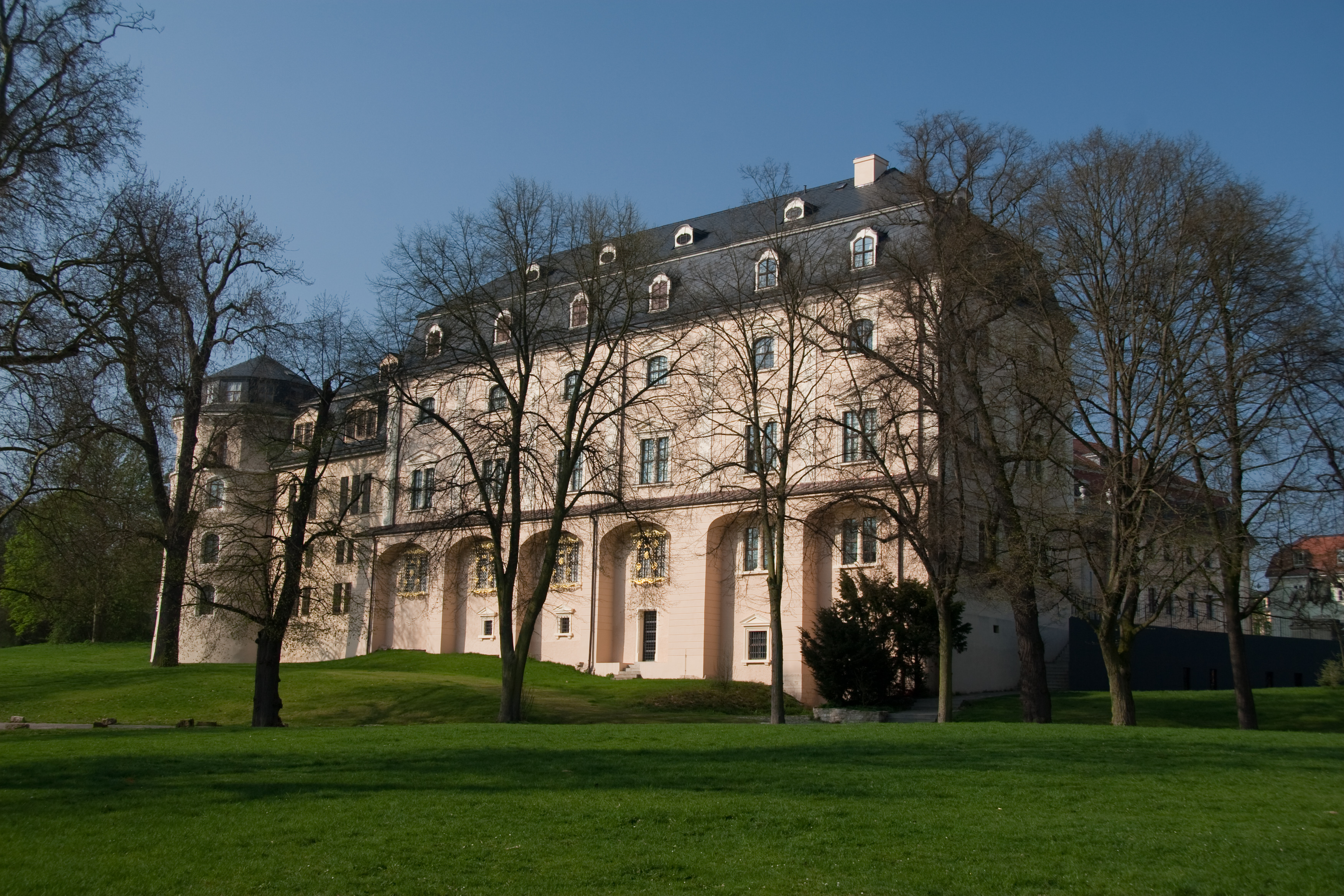 Anna Amalia Bibliothek in Weimar 50°58′42.5″N 11°19′55.8″E / 50.978472°N 11.332167°E